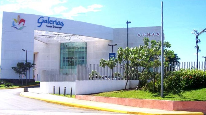 A nice shot of the Galerias Santo Domingo in Managua, Nicaragua